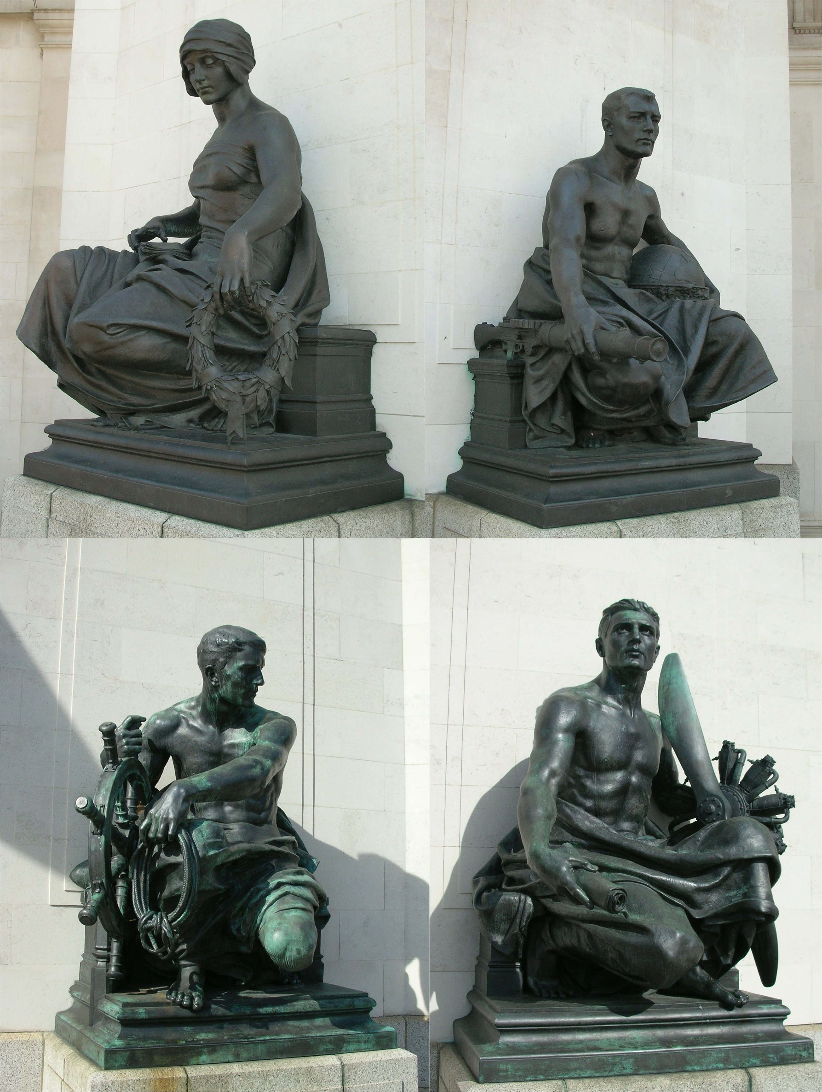 Four statues by Albert Toft, dated 1924, outside the Hall of Memory, Birmingham, England. Built to commemorate the lost lives in World War I they represent the Women's Services, Army, Navy, and Air Force. Composite of four photographs taken by me, 6 April 2007. Oosoom 21:10, 6 April 2007 (UTC)